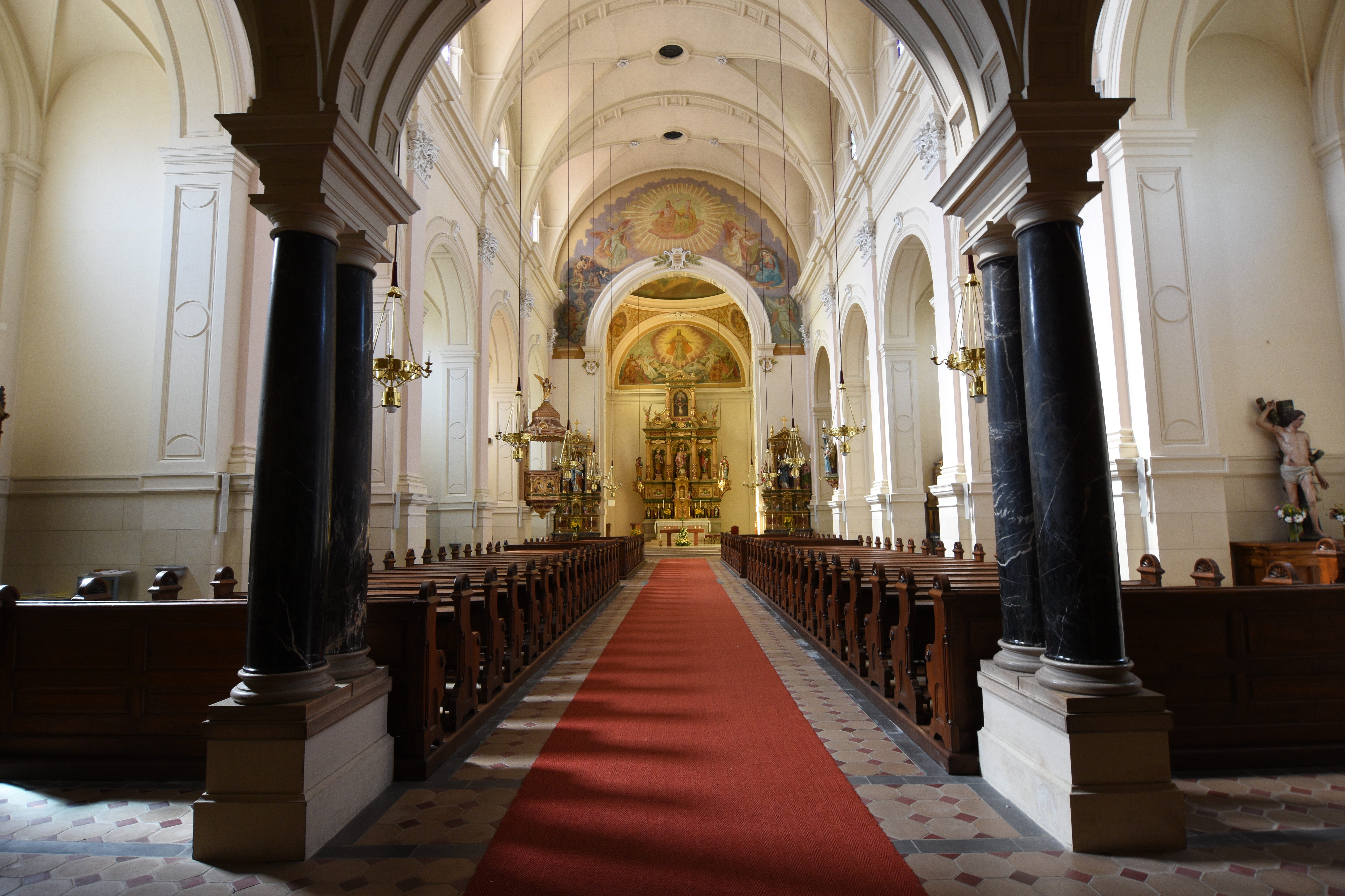 Leonhardskirche (Feldbach)